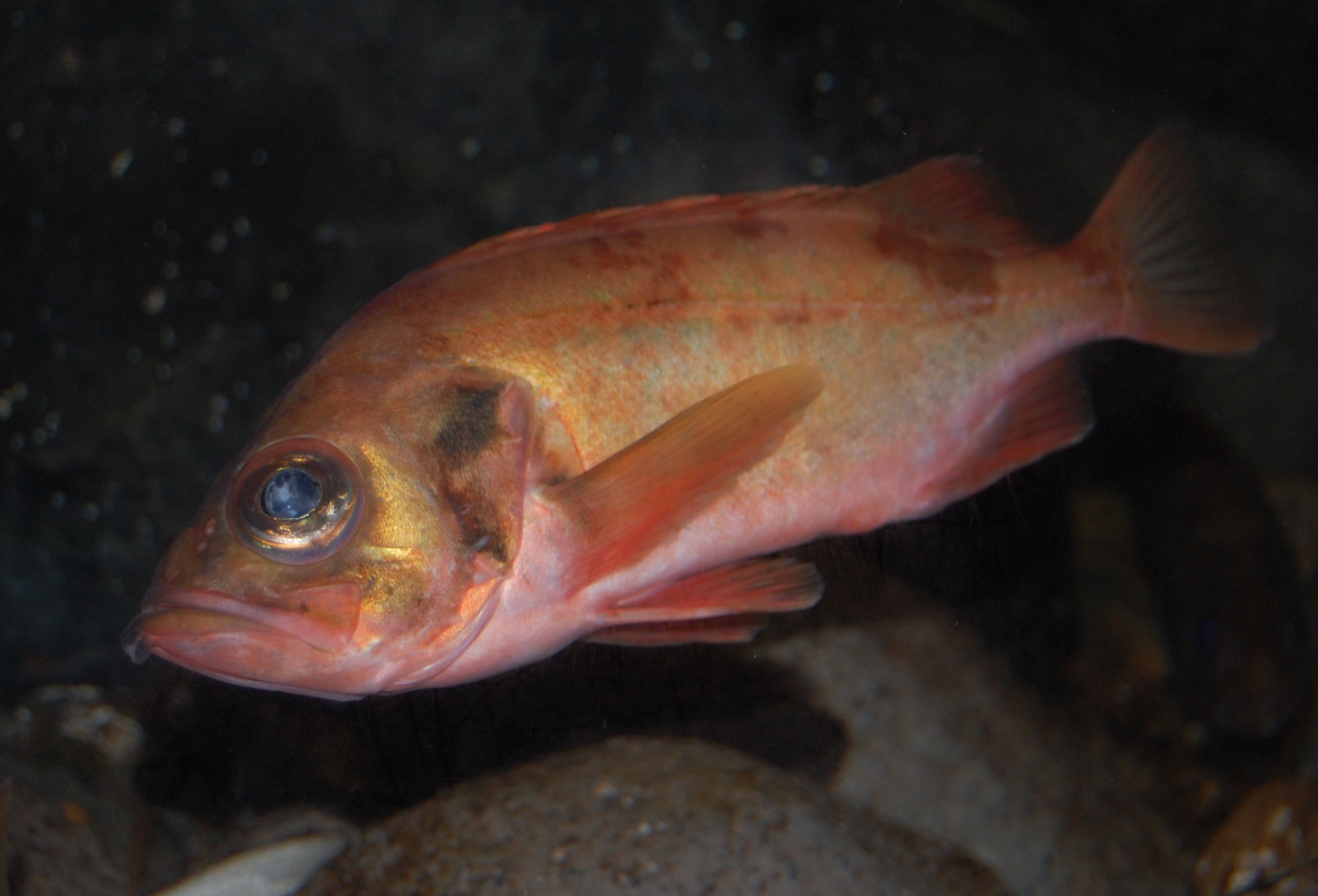 Acadian redfish (Sebastes fasciatus) at the New England Aquarium, Boston MA.